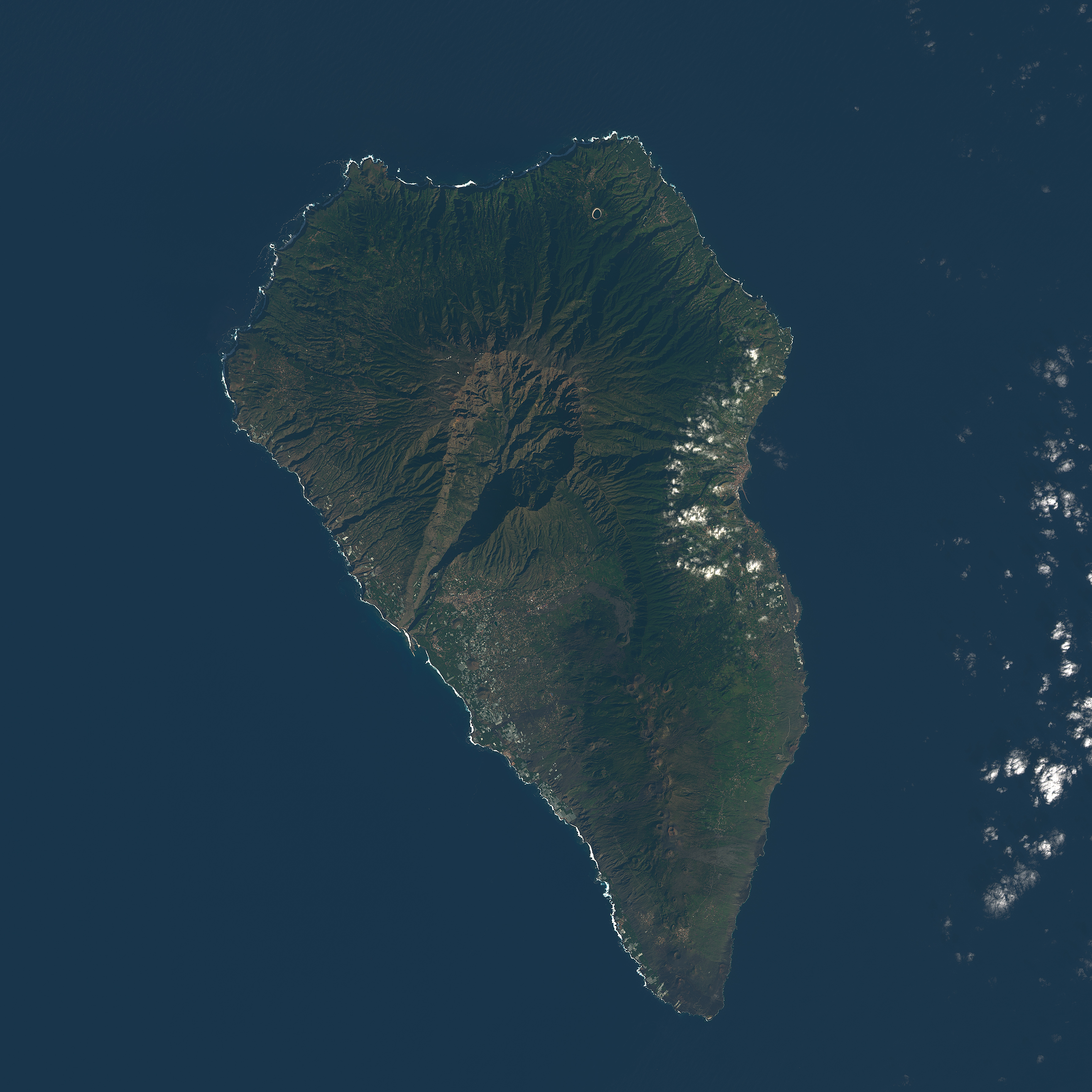 Observational Data courtesy of Landsat 8 satellite (Bands: 2, 3, 4, 8) & USGS. Data processed by Paul Quast. Data Specifications: Coordinates: 28.9421, -17.9139. Acquired: 19-May-2016 (Entity ID: LC82080402015365LGN00, Path: 208, Row: 40). Features of interest: La Palma Island [Middle]. Roque de los Muchachos Observatory (La Palma) [Middle]. Telescopio Nazionale Galileo (La Palma) [Middle]. Grand Telescopio Canarias (La Palma) [Middle]. MAGIC Telescopes (La Palma) [Middle]. Observatorio Astrofísico (La Palma) [Middle]. La Gomera Island [Bottom-Right].